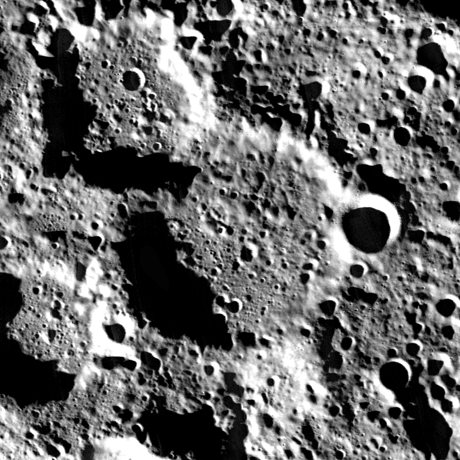 Crater Bi Sheng (diam. 55 km) on the Moon. Mosaic of photos by Lunar Reconnaissance Orbiter, made with Wide Angle Camera. Size of the image is 110×110 km, north is up.